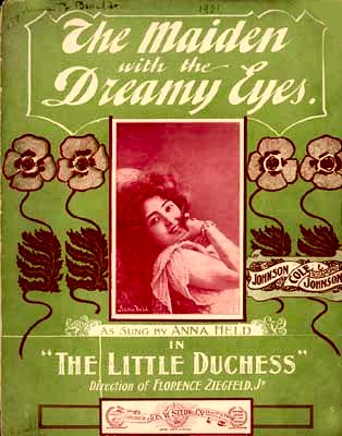 "The Maiden with the Dreamy Eyes", sheet music cover, en:1910, with photo of Anna Held, from